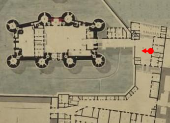 A diagram, drawn shortly after 1789, showing the buildings around the Bastille. The red dot marks the perspective of Claude Chalot's painting